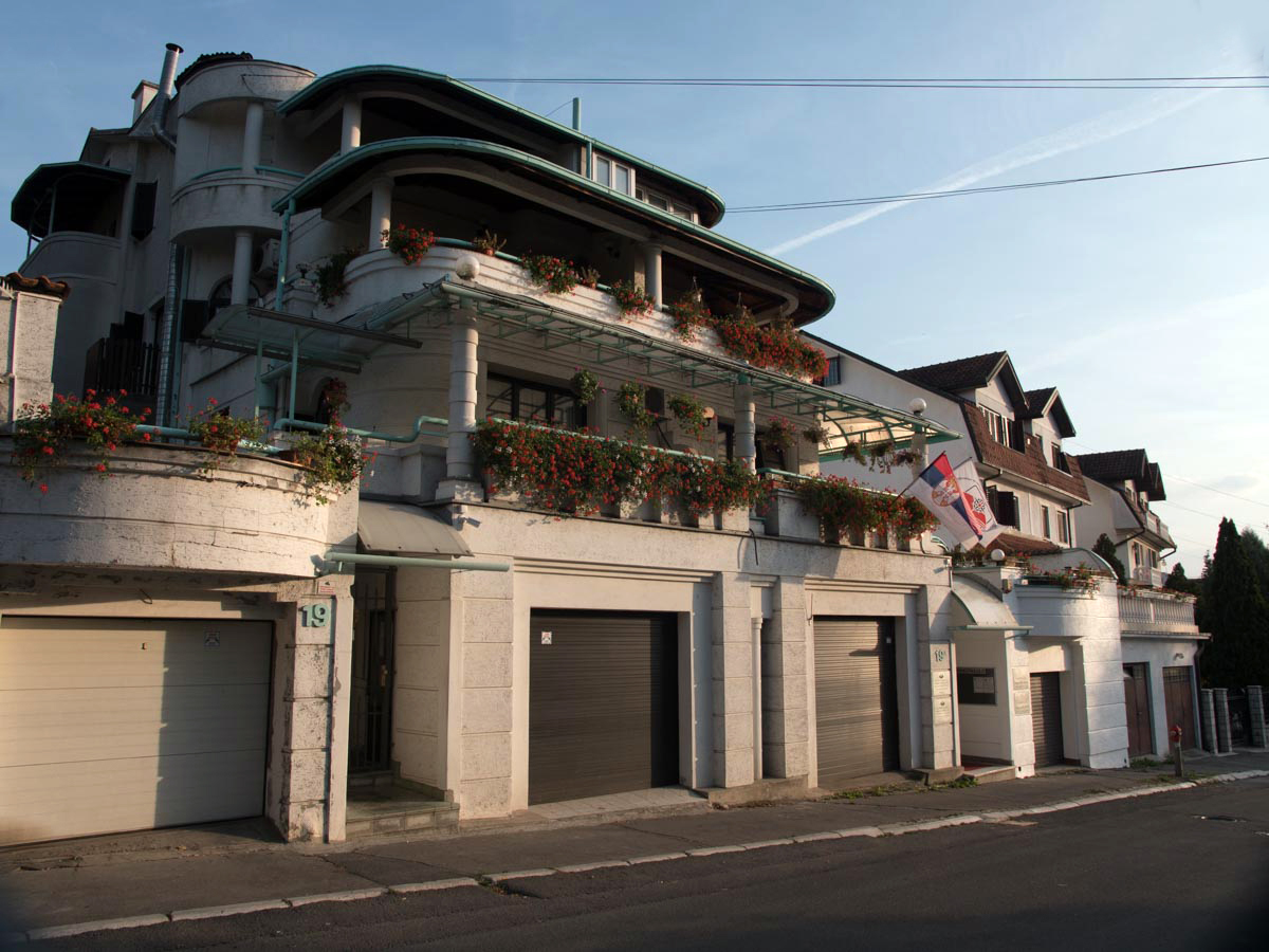 Building of Society for Culture, Art and International Cooperation Adligat, located in Belgrade, Banjica. It includes the Museum of Serbian Literature, the Museum of Books and Travel and the Lazić Library. Српски (ћирилица): Зграда Удружења за културу, уметност и међународну сарадњу Адлигат. Налази се на Бањици у Београду. Укључује Музеј српске књижевности, Музеј књиге и путовања и Библиотеку Лазић.